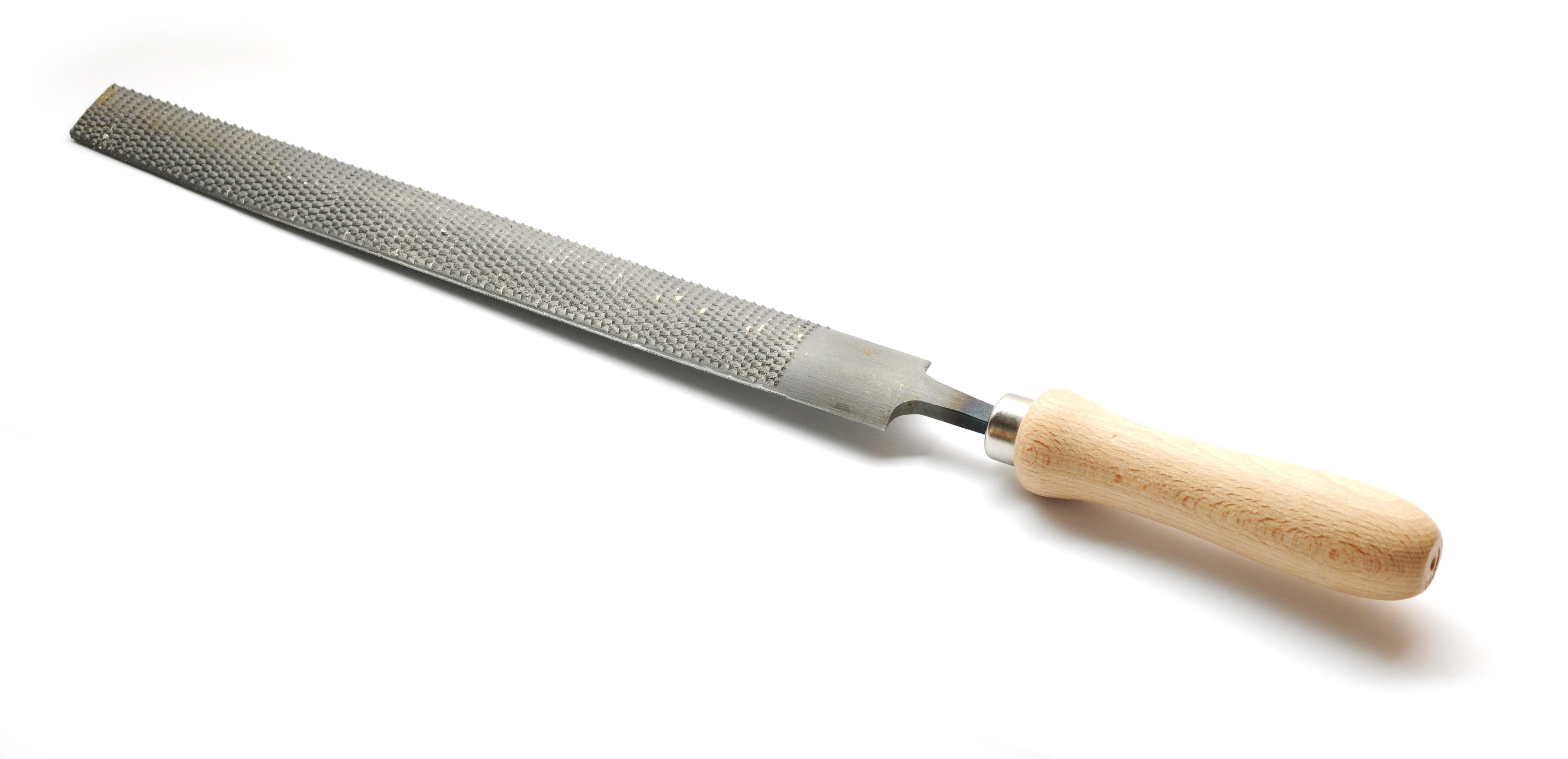 Rasp manufactured by Baiter